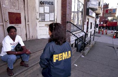 Philadelphia, Pennsylvania, September 26, 1999 - A FEMA Community Relations worker talks with a flood victim in Darby, Pennsylvania. Photograph by Andrea Booher / FEMA News Pho.